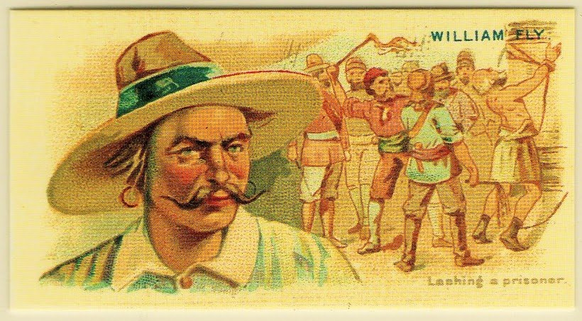 Pirates of the Spanish Main – 1888 (Trading Cards) – William Fly